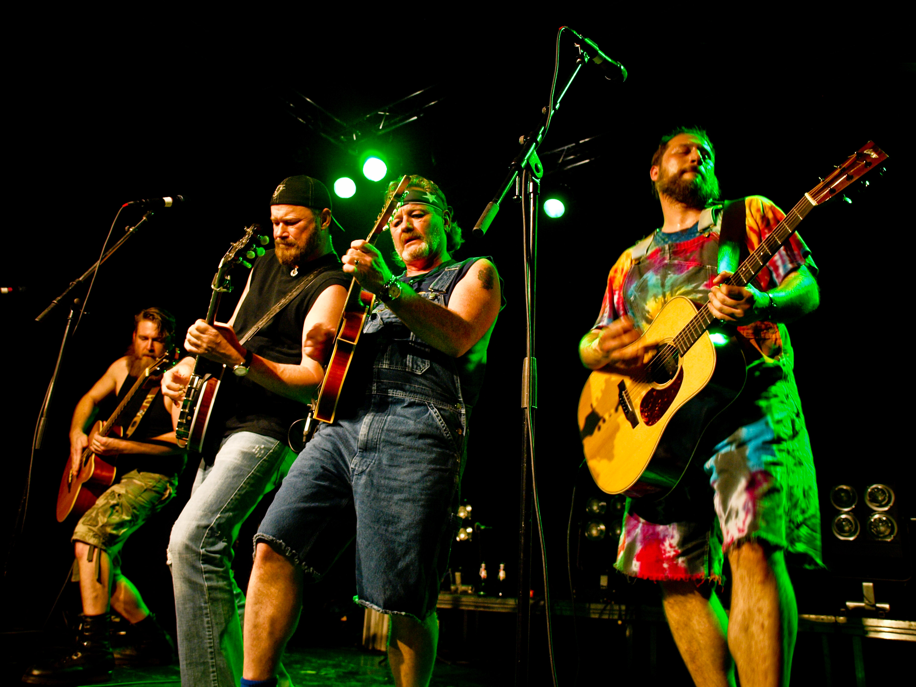 Hayseed Dixie playing in Stavanger, Norway